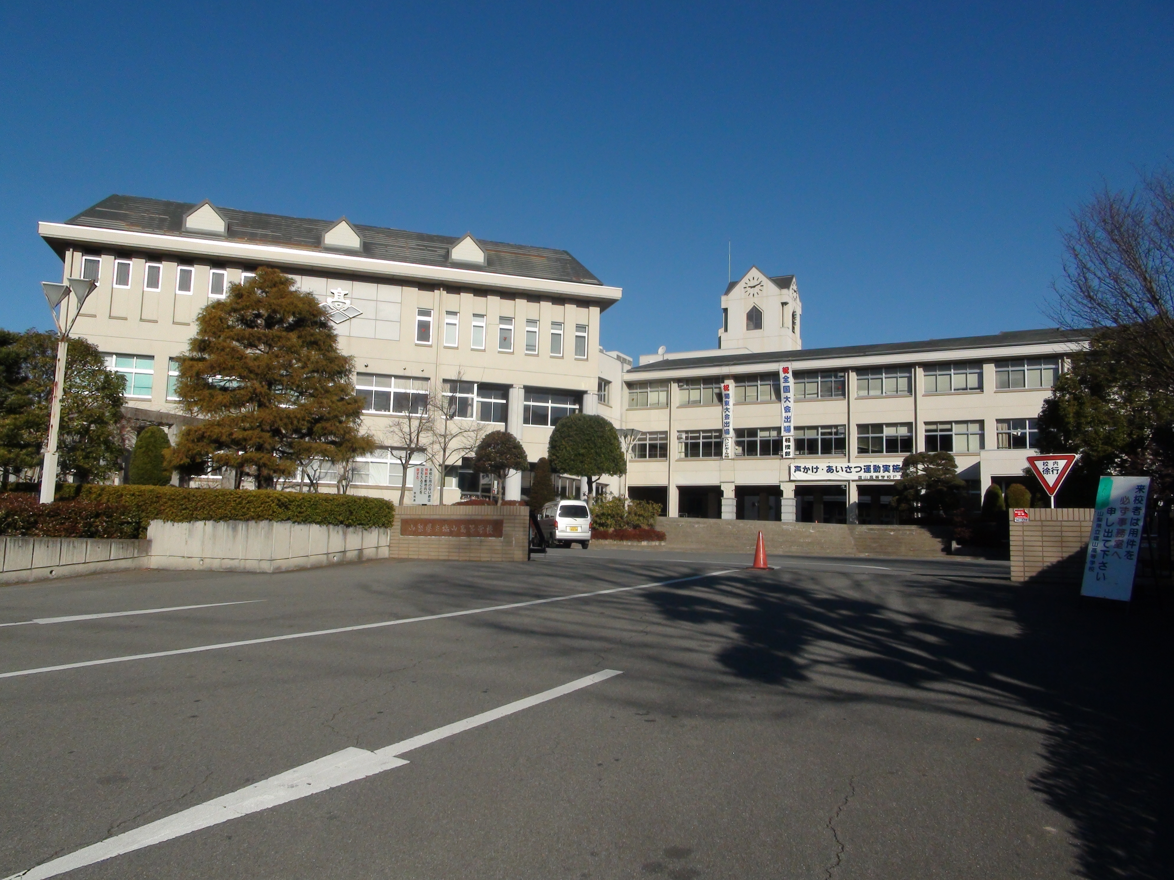 Yamanashi prefectural Enzan High School